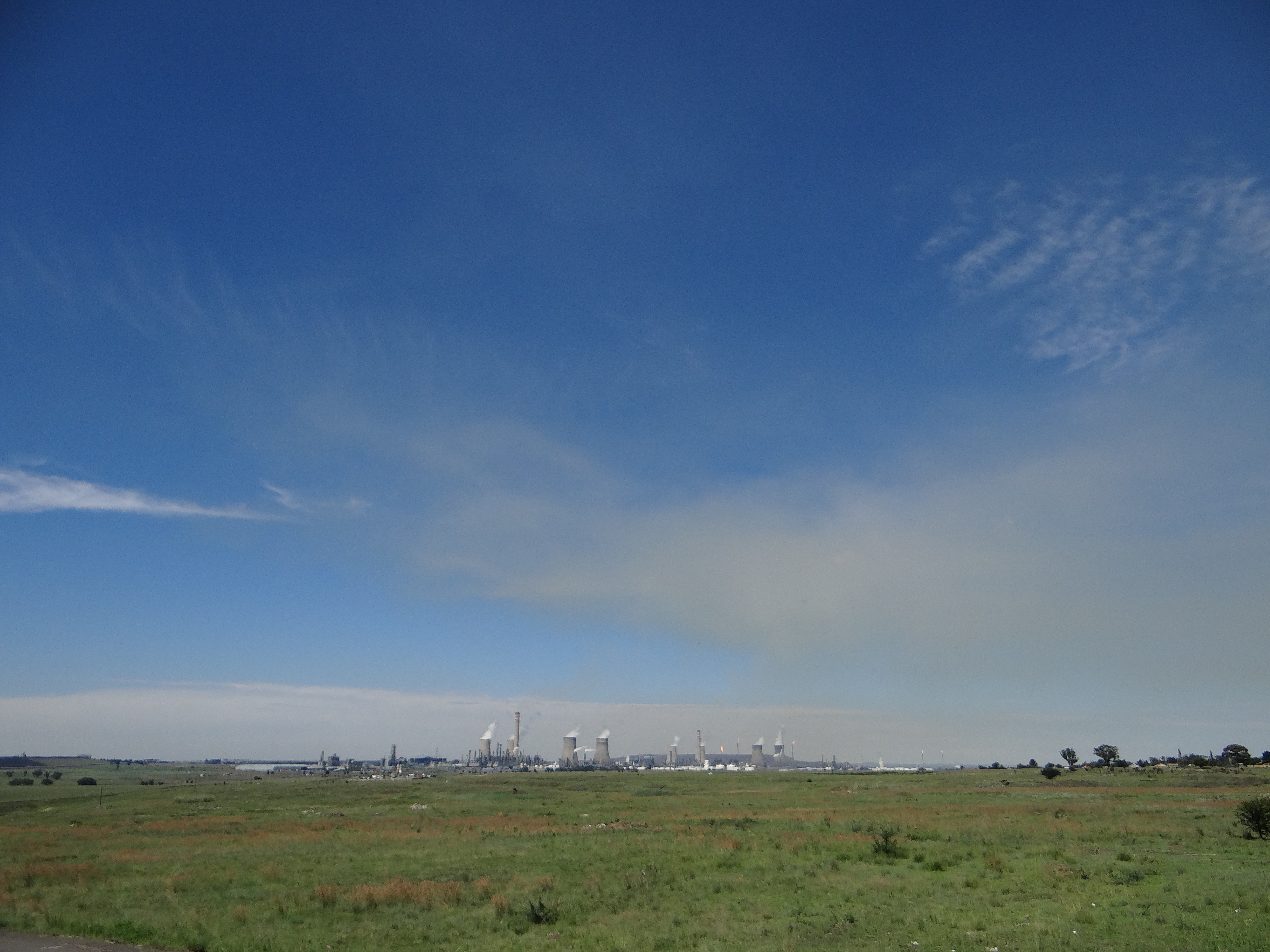 Sasol Secunda Facility emissions.